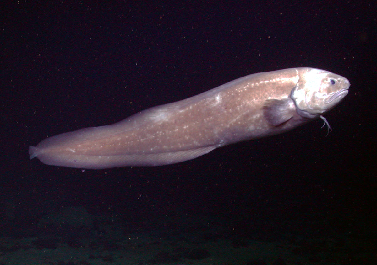 Giant cusk eel (Spectrunculus grandis) on the Davidson Seamount at 3288 meters.